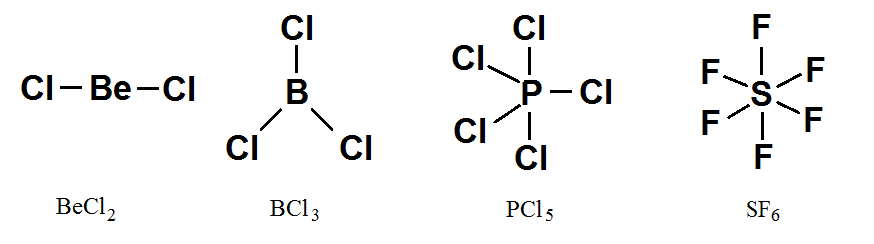 Deviations from the rules of octets